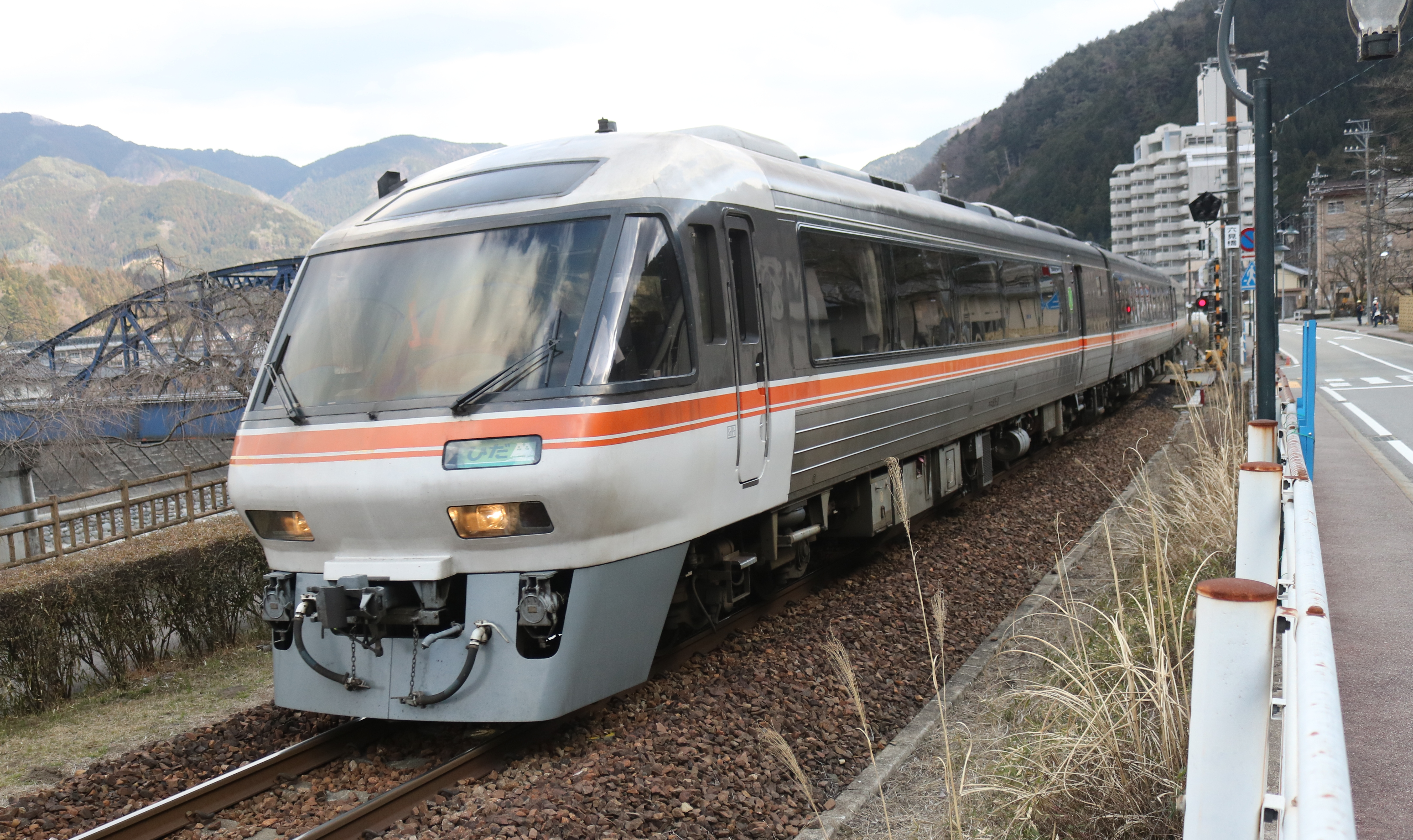 JR Central Kiha 85 (Wideview Hida) in Takayama Main Line near Gero Station, Shogano, Gero, Gifu prefecture, Japan.